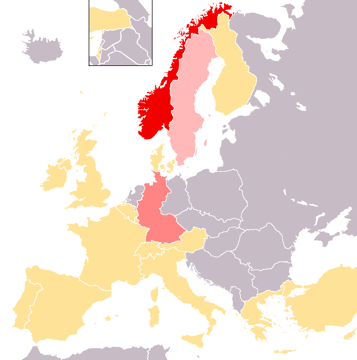 Map of Eurovision 1985